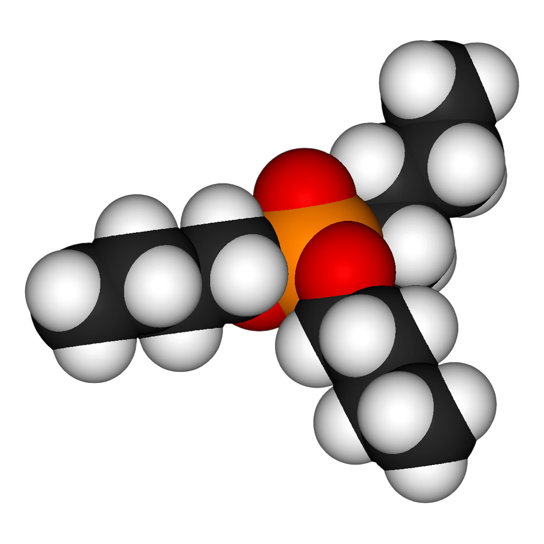 Space-filling model of the chemical compound tributyl phosphate